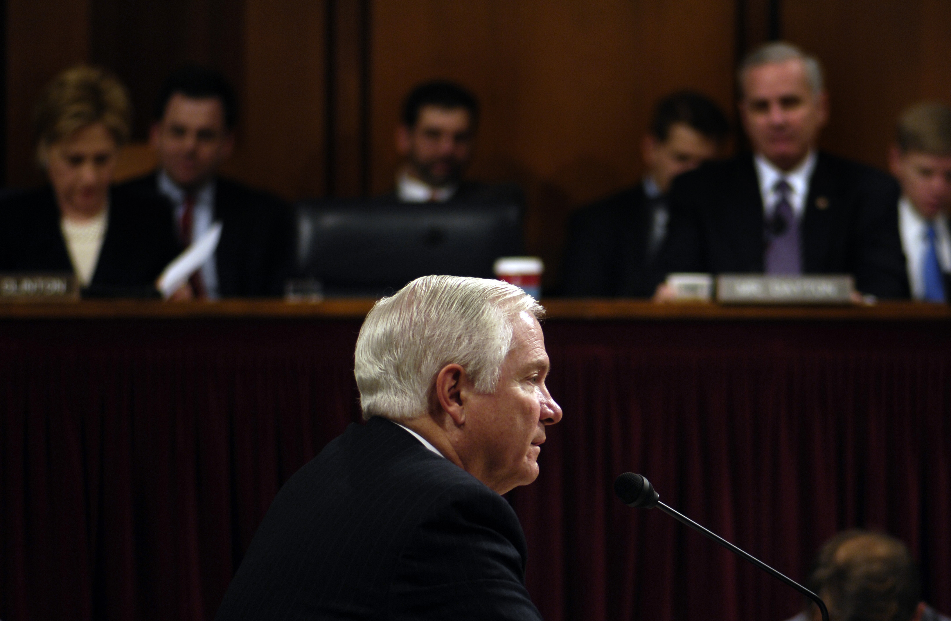 Secretary of Defense nominee Robert Gates responds to a question regarding his confirmation during a Senate Armed Services Committee hearing in Washington, D.C., Dec. 5, 2006. DoD photo by Cherie A. Thurlby. (Released) (Released to Public)